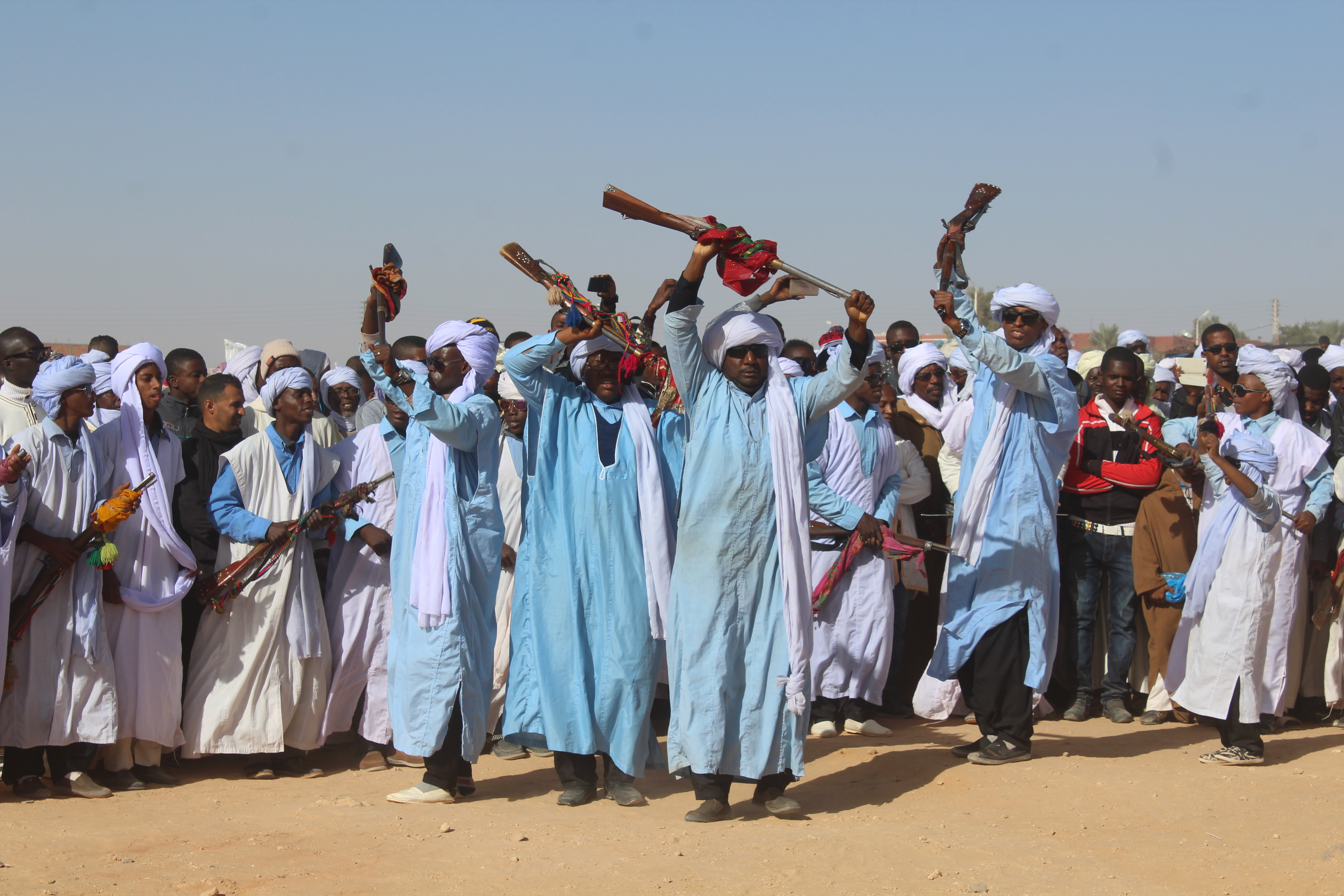 This is an image with the theme "Play" from: Algeria